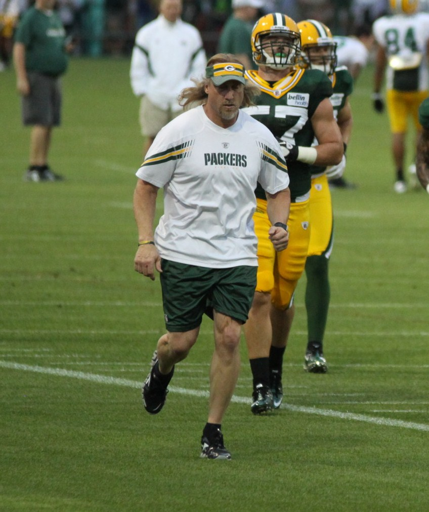 Green Bay Packers outside linebackers coach Kevin Greene during preseason training camp at Ray Nitschke Field, Green Bay Wisconsin, August 5, 2011